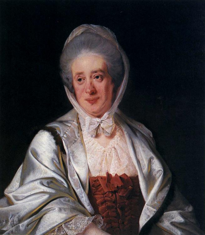 Portrait of Elizabeth Crompton (Mrs Samuel Crompton)